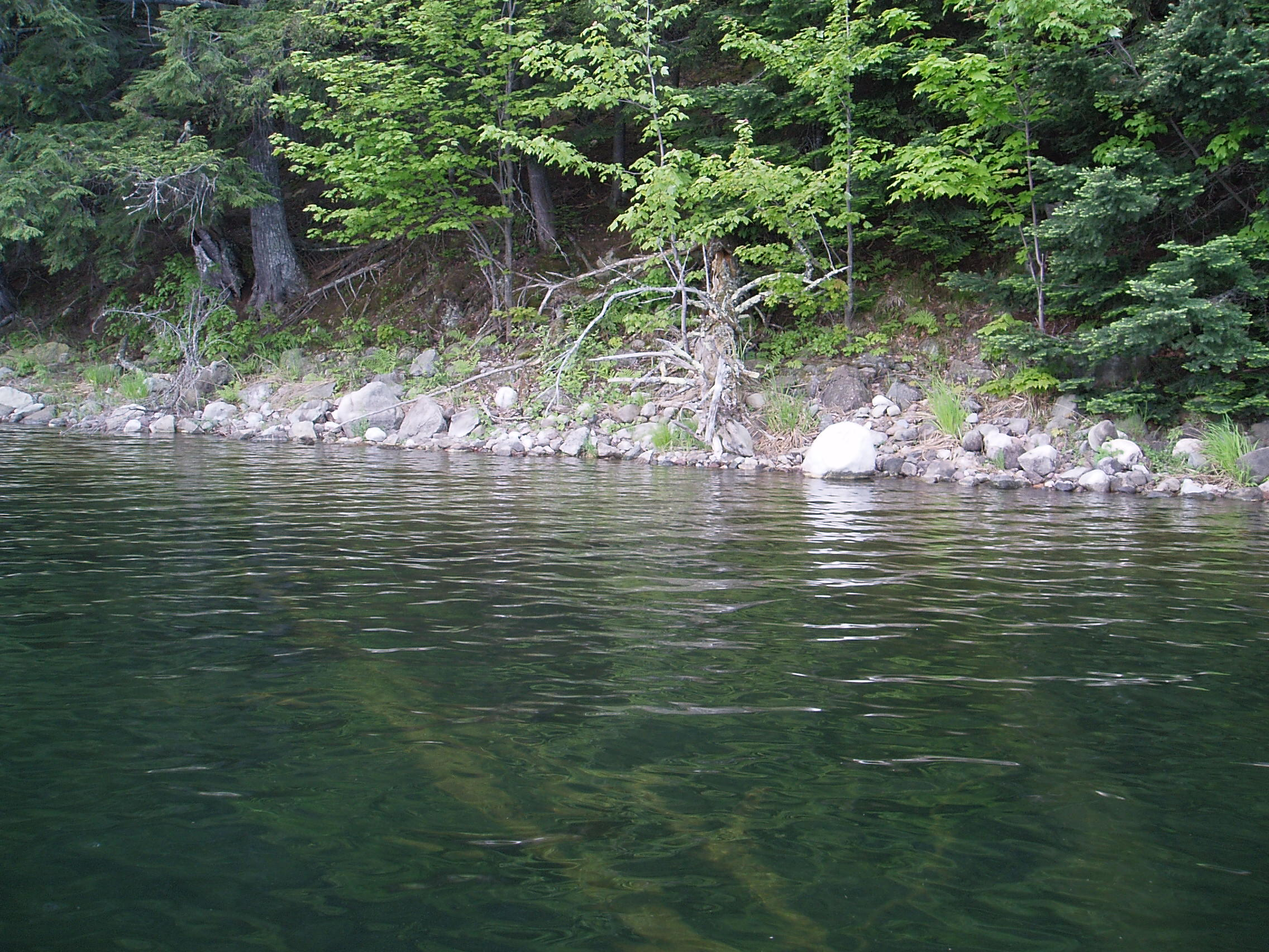 Image of Clark Lake shoreline, taken 6/1/2006 by H.G. Judd.